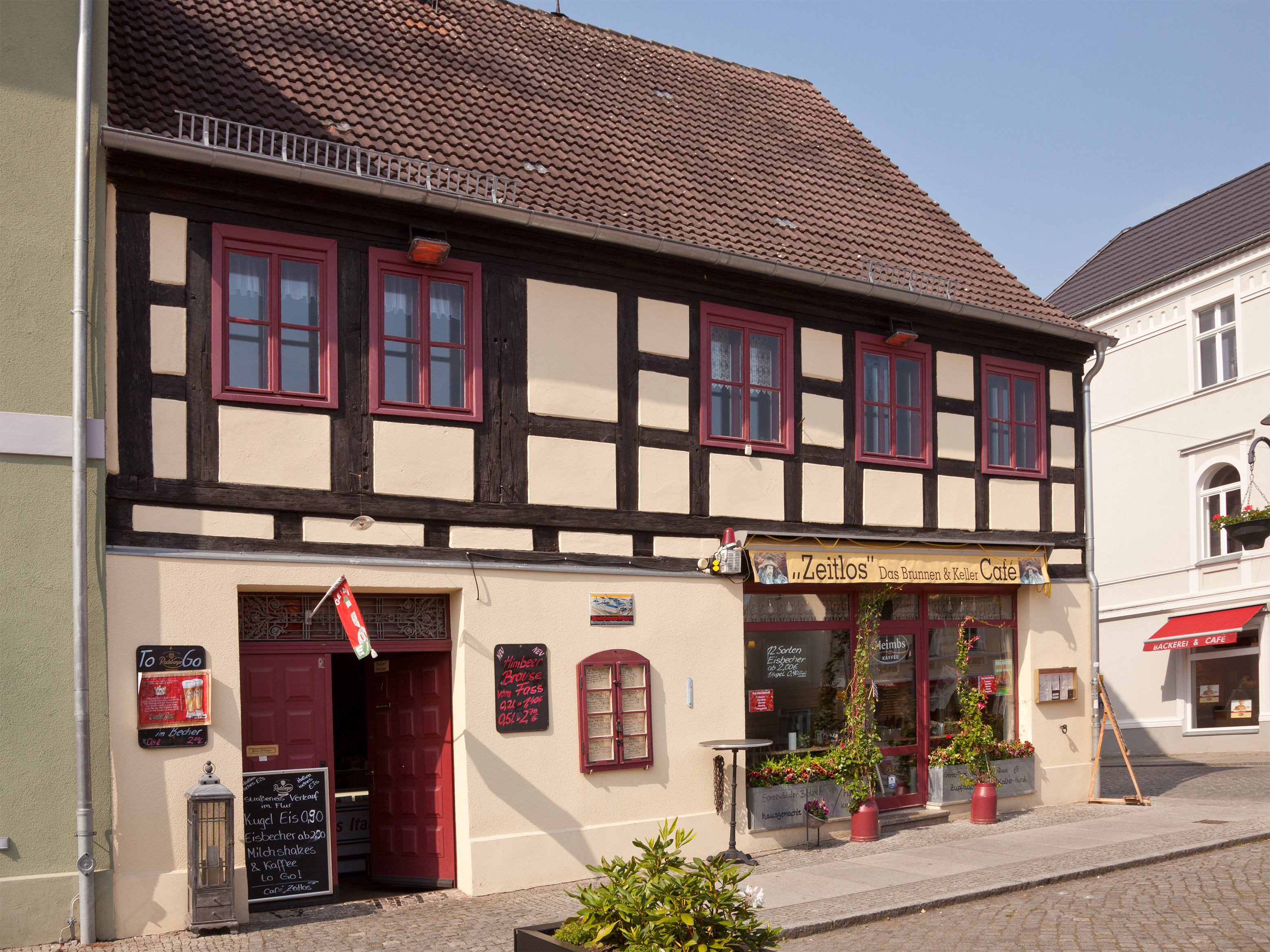 Lübbenau/Spreewald, Café Zeitlos. Built in 1713, it is supposed to be the oldest house in Lübbenau that still exists.